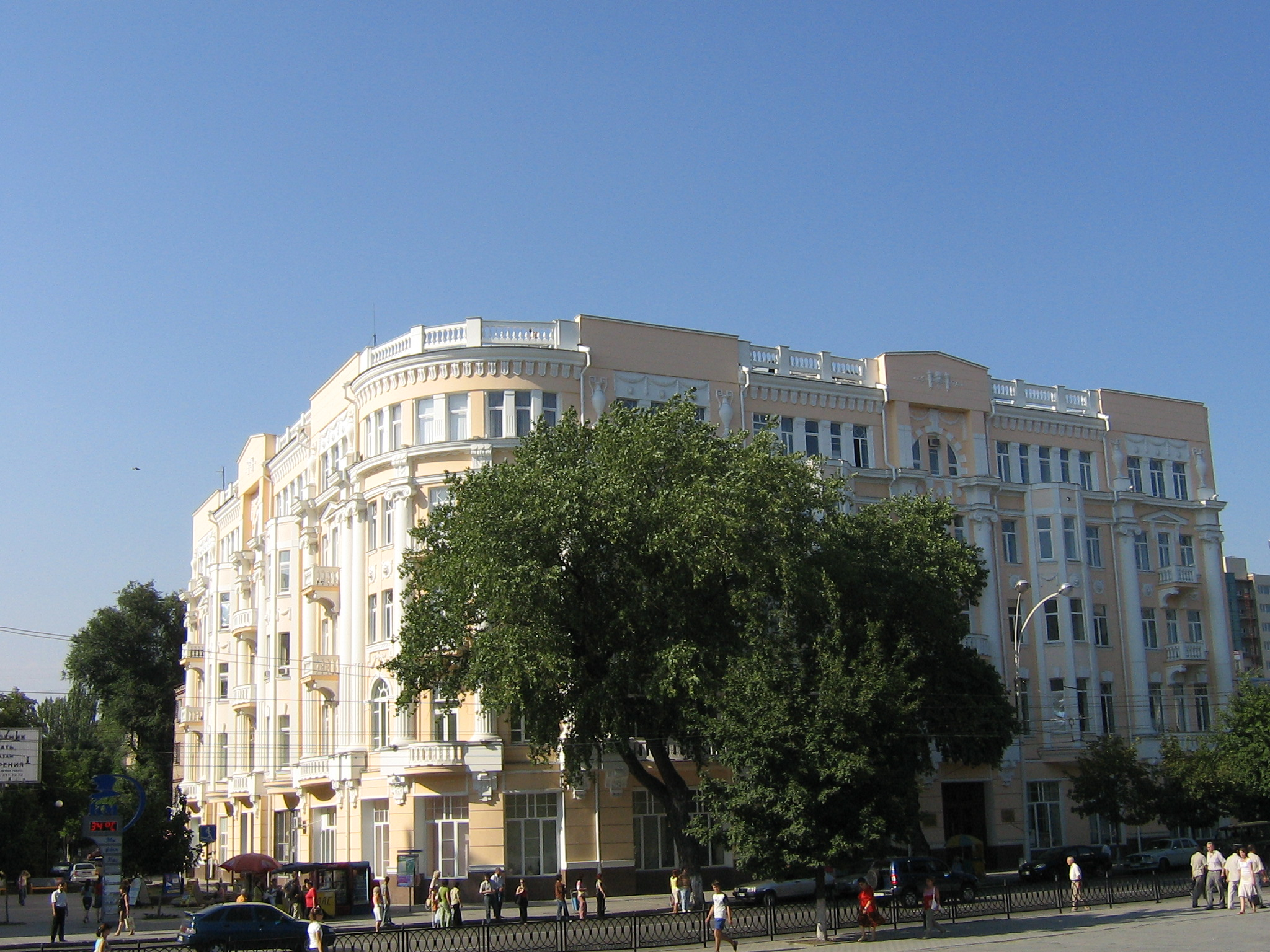 Rostov-on-Don, main building of the Southern Federal University, formerly Rostov State University.